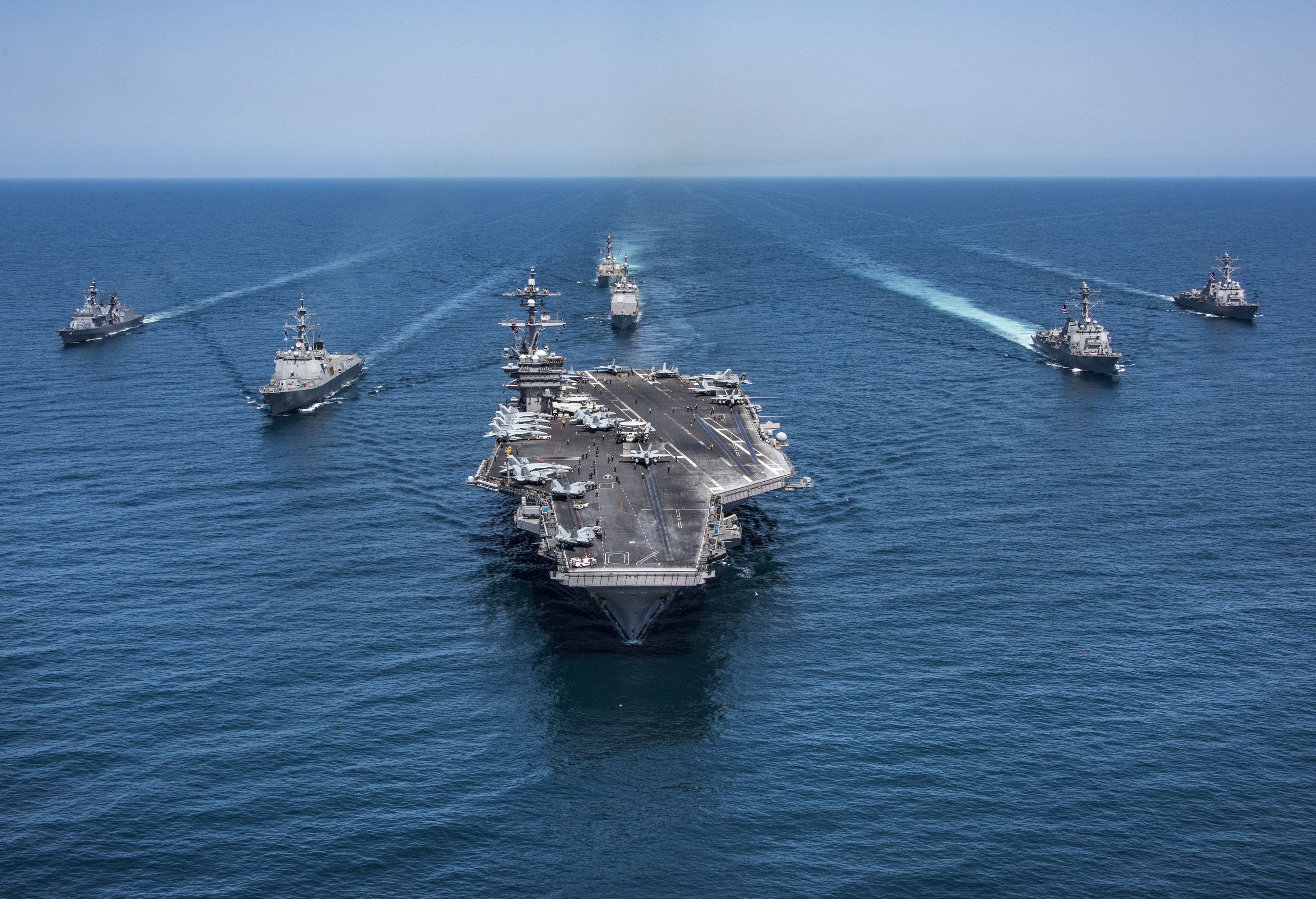 WESTERN PACIFIC (May 3, 2017) The Republic of Korea destroyers Sejong the Great (DDG 991) and Yang Manchun (DDH 973), the Arleigh Burke-class guided-missile destroyers USS Wayne E. Meyer (DDG 108), USS Michael Murphy (DDG 112) and USS Stethem (DDG 63), Ticonderoga-class guided-missile cruiser USS Lake Champlain (CG 57) and Nimitz-class aircraft carrier USS Carl Vinson (CVN 70) transit the Western Pacific. The U.S. Navy has patrolled the Indo-Asia-Pacific routinely for more than 70 years promoting regional peace and security. (U.S. Navy photo by Mass Communication Specialist 2nd Class Sean M. Castellano/Released)170503-N-BL637-149 Join the conversation: navylive.dodlive.mil